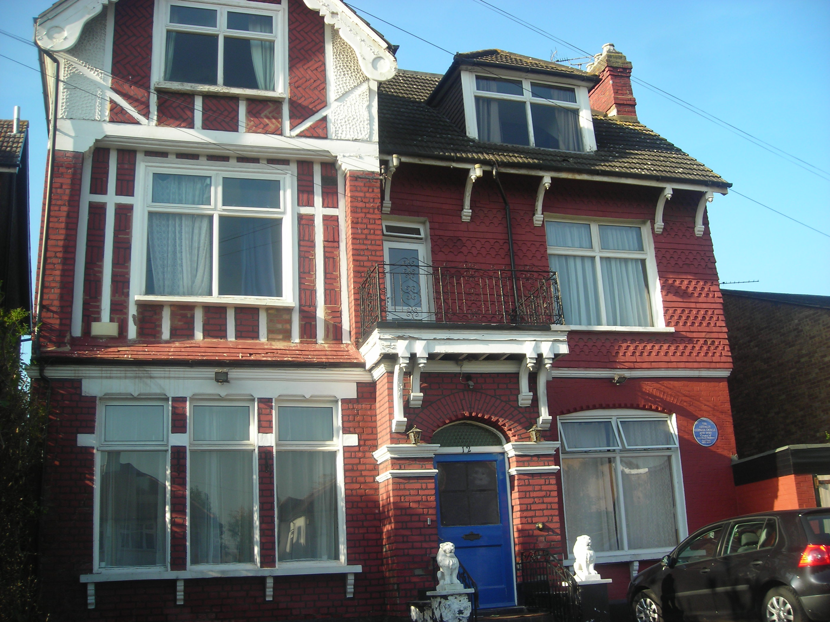 Arthur Conan Doyle's house, Tennison Road, South Norwood, with the blue plaque on the right.